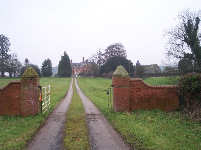 Moreton Jeffries Church and Moreton House. Looking West